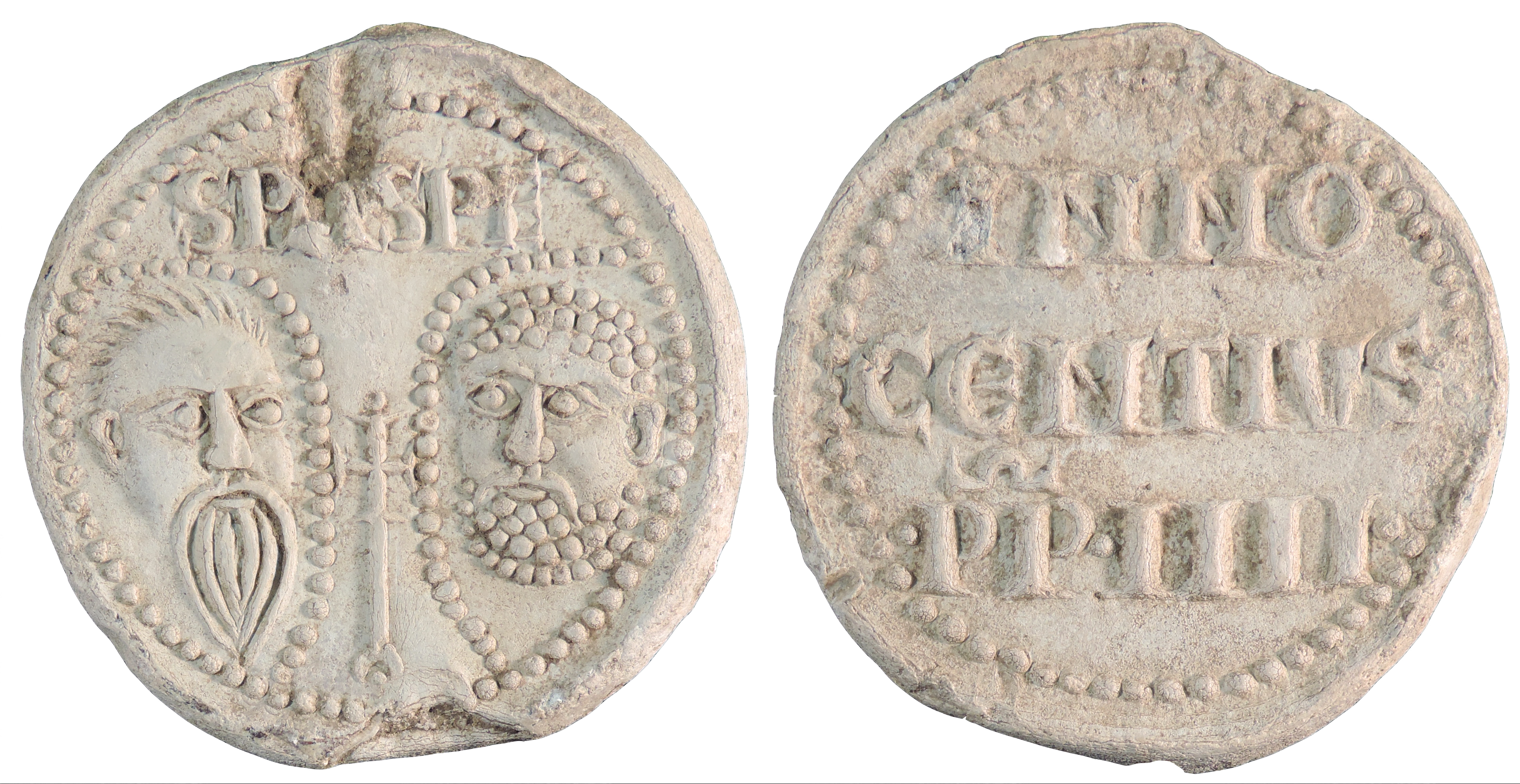 A lead papal bulla of Pope Innocent IV dating to the medieval period. Innocent IV was Pope from 25 June 1243 to his death in 1254. The obverse of the bulla is stamped with the faces of the saints Peter and Paul within a border of raised pellets. Above the heads within the border, the saints' abbreviations are visible with 'SPA' for St. Paul to the left and 'SPE' for St. Peter to the right. The reverse is stamped with INNO//CENTIVS//.PP .IIII. also within a border of raised pellets. The 'PP' stands for 'pastor pastorum' which translates as 'shepherd of the shepherds'. Papal Bulla such as this acted as seals on official Papal documents to authenticate their provenance and authority. The metal is a mid greyish-white colour and survives in very good condition. The bulla is 37.9mm in diameter, 5.1mm thick and weighs 39.7g.